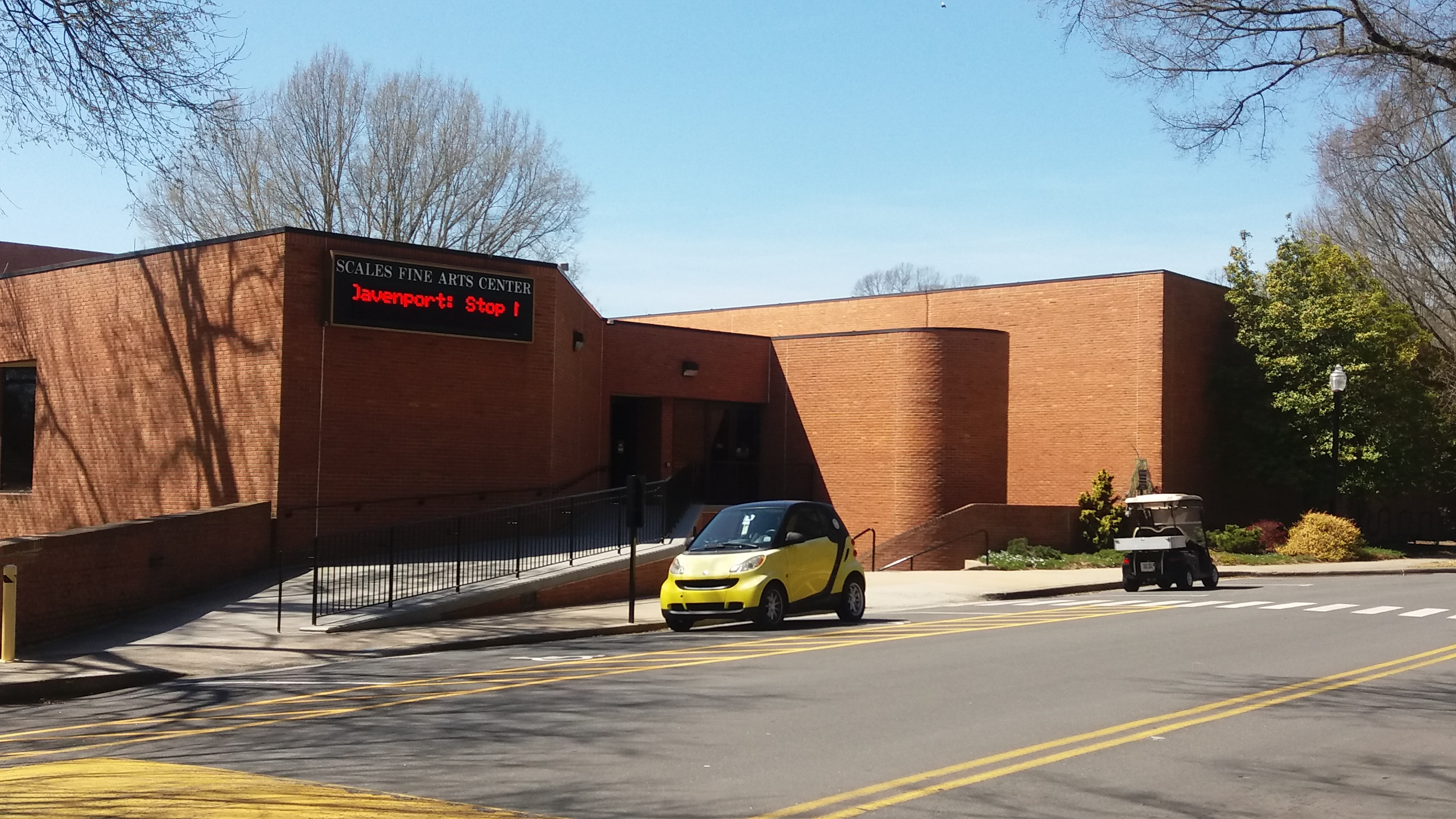 This is a picture of the Wake Forest Fine Arts Center.